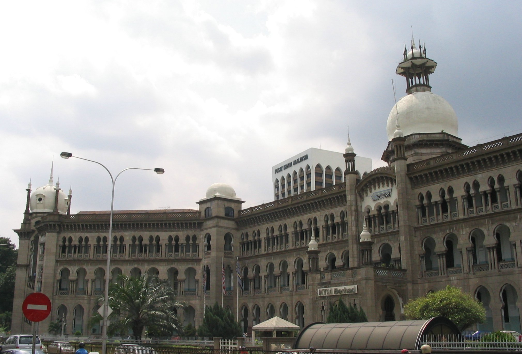 Railway administration building (opposite train station) in Kuala Lumpur, Malaysia.